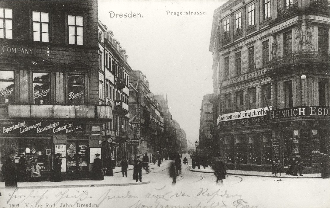 located at the corner of Prager Straße and Waisenhausstraße, existed from 1854 to 1945